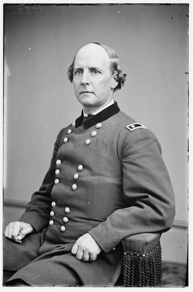 Portrait of Maj. Gen. Stephen A. Hurlbut, officer of the Federal Army.